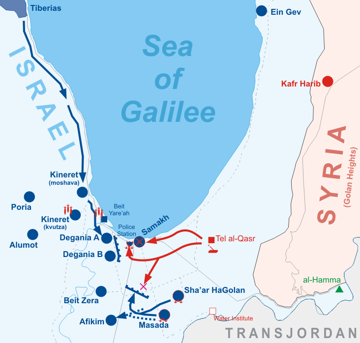 Map of the troop movements at the battle of Tzemah, as part of the Kinarot Valley battles. Legend: Full circle: inhabited village Full cluster: city Square: manned outpost Triangle: unmanned outpost or uninhabited notable site Blue color: Jewish Green color: Israeli Arab Red color: Syrian Grey line: Main road Dotted grey line: Secondary/unpaved road Artillery symbol: Artillery position 3 flame symbols: Position shelled by artillery 3 bomb symbols: Position bombed from the air Arrow: Troop movement Solid line with protruding dashes: Frontal entrenchment/position Two swords: Battle (blue indicates Israeli victory, red indicates Syrian victory, magenta indicates stalemate) Dotted troop movement indicates a major/notable retreat